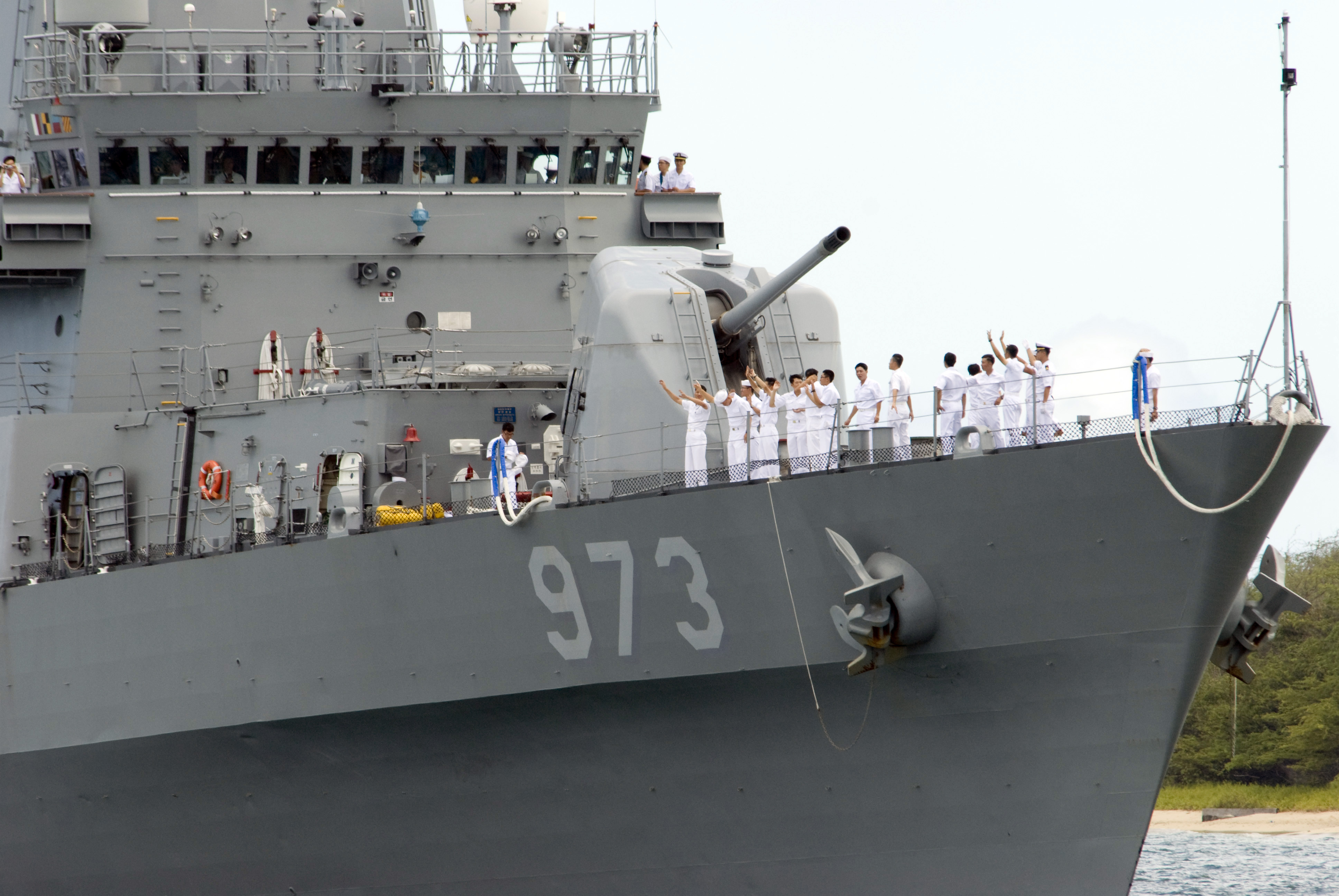 PEARL HARBOR, Hawaii (June 24, 2008) Korean sailors aboard the Republic of Korea Ship (ROKS) Yang Monchoon (DDH 973) wave to observers as the ship pulls into Pearl Harbor for the Rim of the Pacific (RIMPAC) 2008 Exercise. RIMPAC, the world's largest multinational exercise, is scheduled biennially by U.S. Pacific Fleet and takes place in the Hawaiian operating area during June 29 - July 31. Participants include Australia, Canada, Chile, Japan, Netherlands, Peru, Republic of Korea, Singapore, United Kingdom and the U.S. India, Colombia, Mexico, and Russia are scheduled to send observers. U.S. Navy photo by Mass Communication Specialist 2nd Class Kenneth G. Takada (Released)